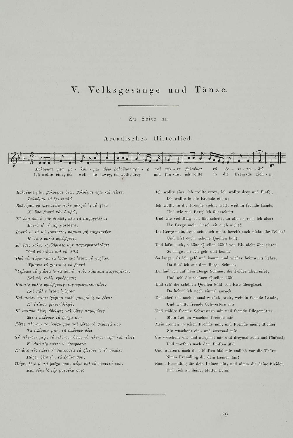 Otto Magnus Baron von Stackelberg. Der Apollotempel zu Bassae in Arcadien und die Daselbst Ausgegrabenen Bildwerke / Dargestellt und Erläutert von O.M. Baron von Stackelberg, Φρανκφούρτη, Gedruckt mit Andreäischen Schriften, (1826)